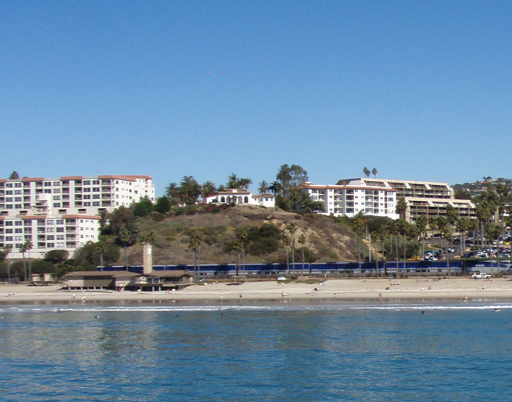 Photo of Casa Romanitica in San Clemente, CA